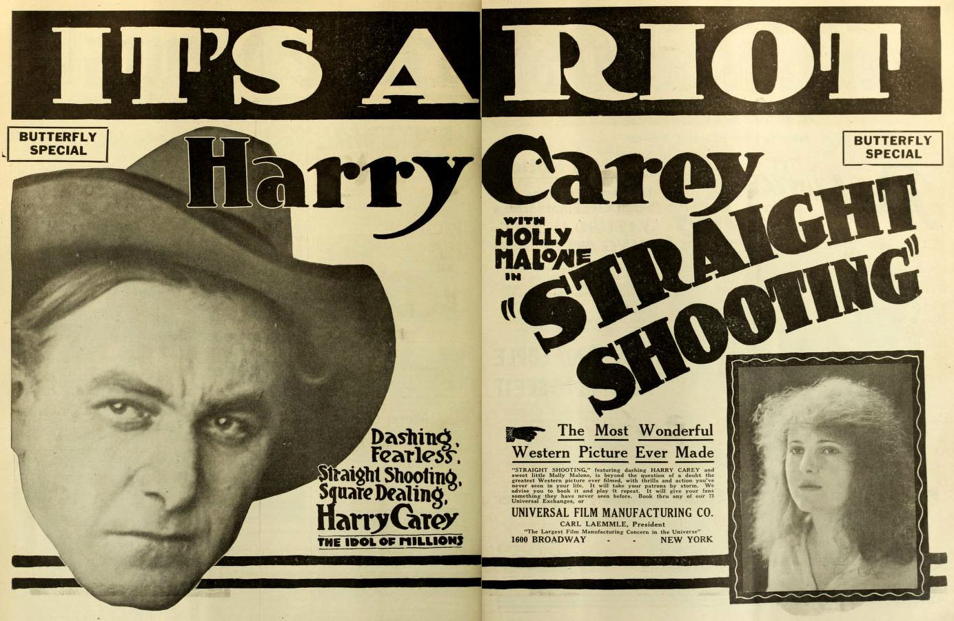 Advertisement in Moving Picture World, Aug 1917 for the film Straight Shooting (1917).